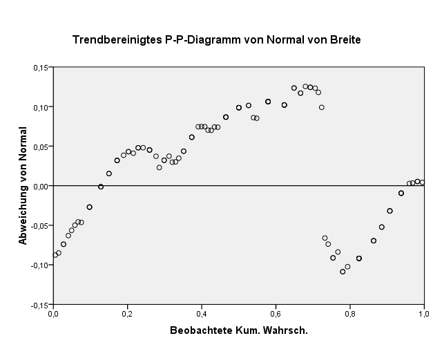 Detrended P-P-Plot of the width of warships; comparison with a normal distribution